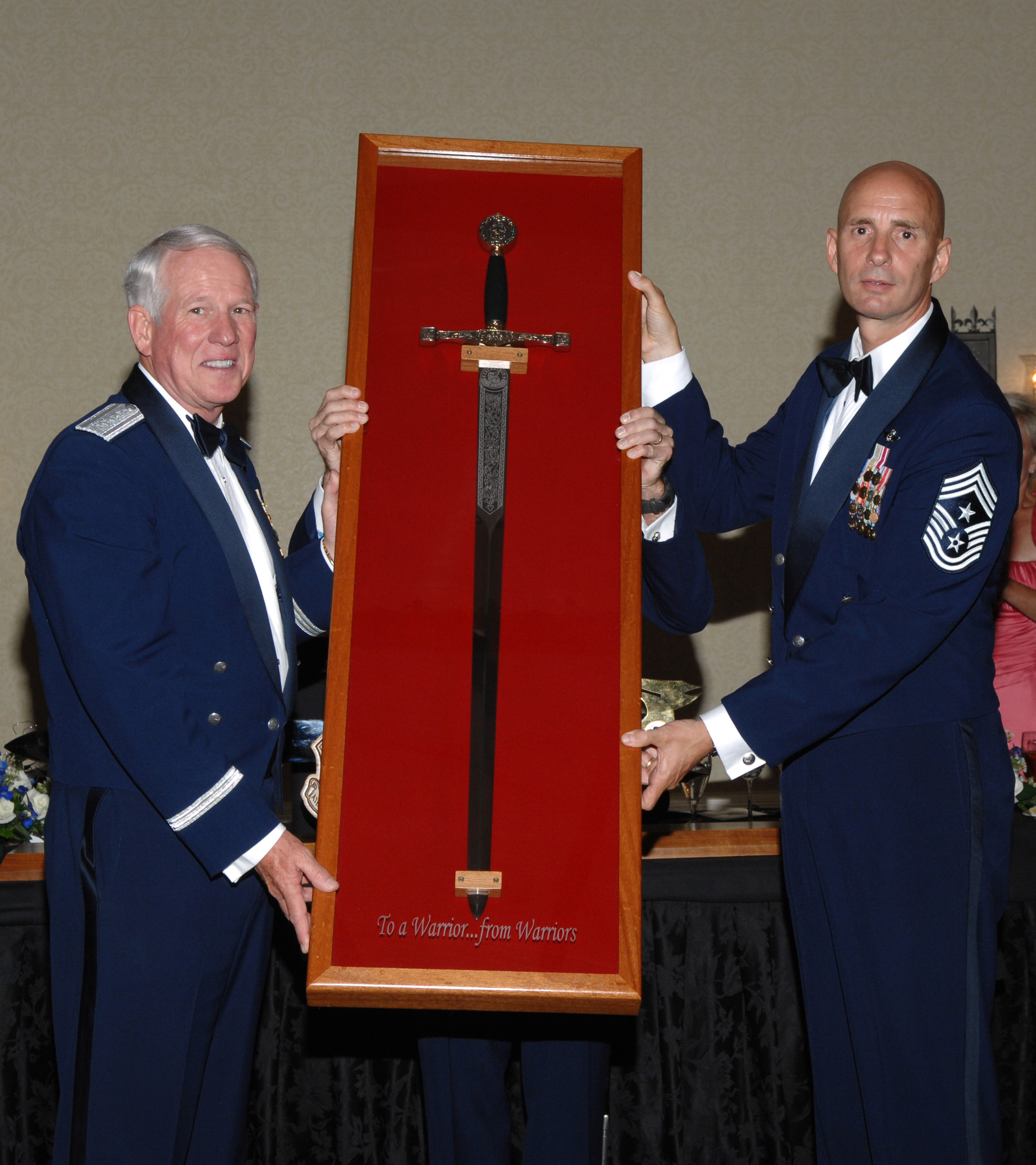 General William Looney III displaying his Order of the Sword.